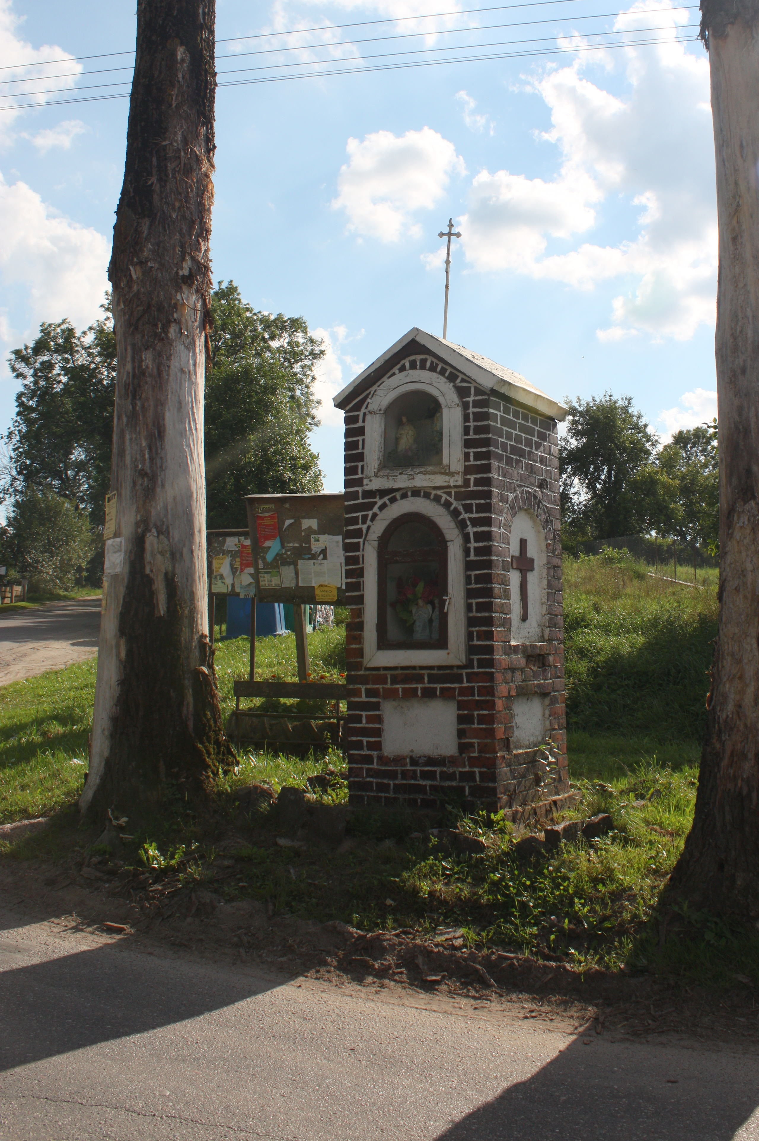 Shrine in Rusek Wielki.